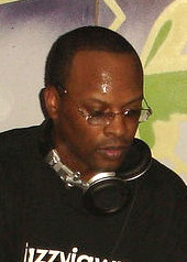 DJ Jazzy Jeff, cropped from larger photo